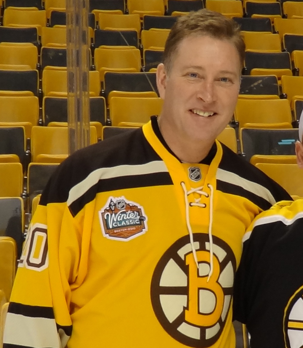 Taken at the 'Slice the Ice' event held by the Boston Bruins Foundation at the TD Garden, Boston, MA.